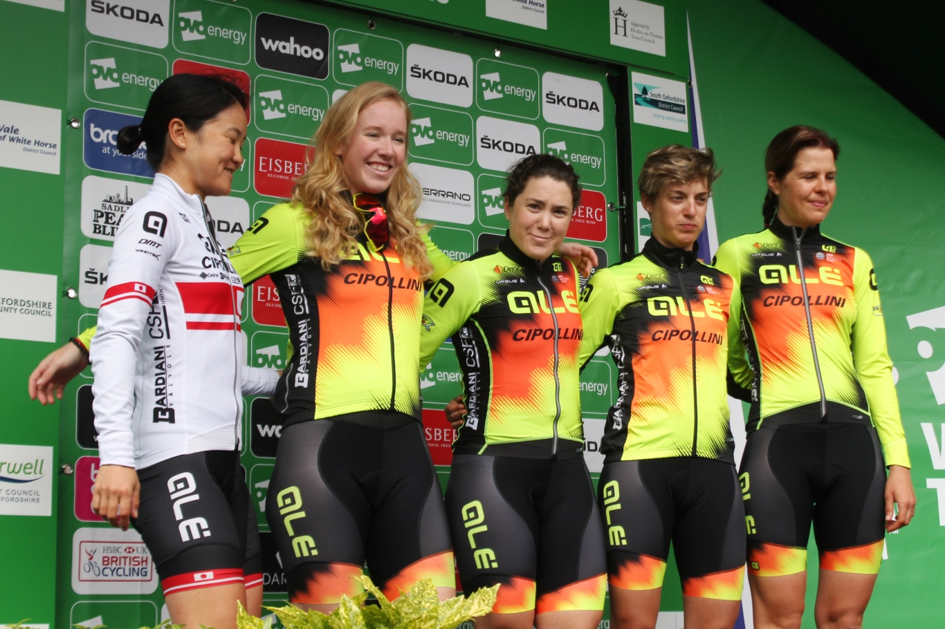 The Alé Cipolini team sign in for stage 3 of the 2019 Women's Tour. The team consisted of Chloe Hosking, Romy Kasper, Maria Apolonia Van't Geloof, Nadia Quagliotto and Eri Yonamine (the Japanese champion on the left). Anna Trevisi was also in the original team but had to abandon during the first stage.